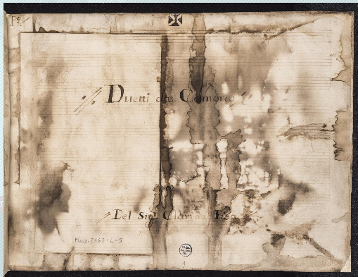 Front page of XVIII century manuscript of "Duetti da camera" by italian composer Giovanni Carlo Maria Clari (1677-1754)